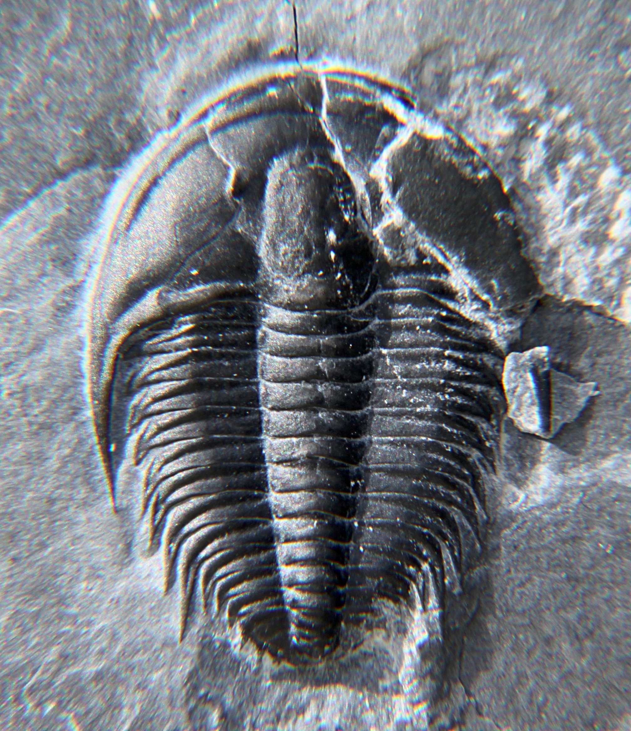 An Orygmaspis contracta trilobite, 16mm, Order Ptychopariida, Family Parabolinoididae, from the Tanglefoot site, McKay Group Formation, Bull River Valley, near Cranbrook British Columbia Canada, Upper Cambrian